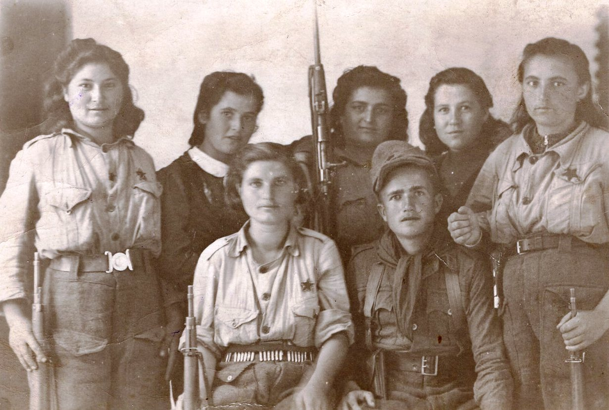 Women partisans from the Voden District, First Aegean Strike Brigade. Photographed in Kavadarci, September 30, 1944 This media file is produced by Wikipedian in Residence in Category:Wikipedian in Residence at DARM in 2016.